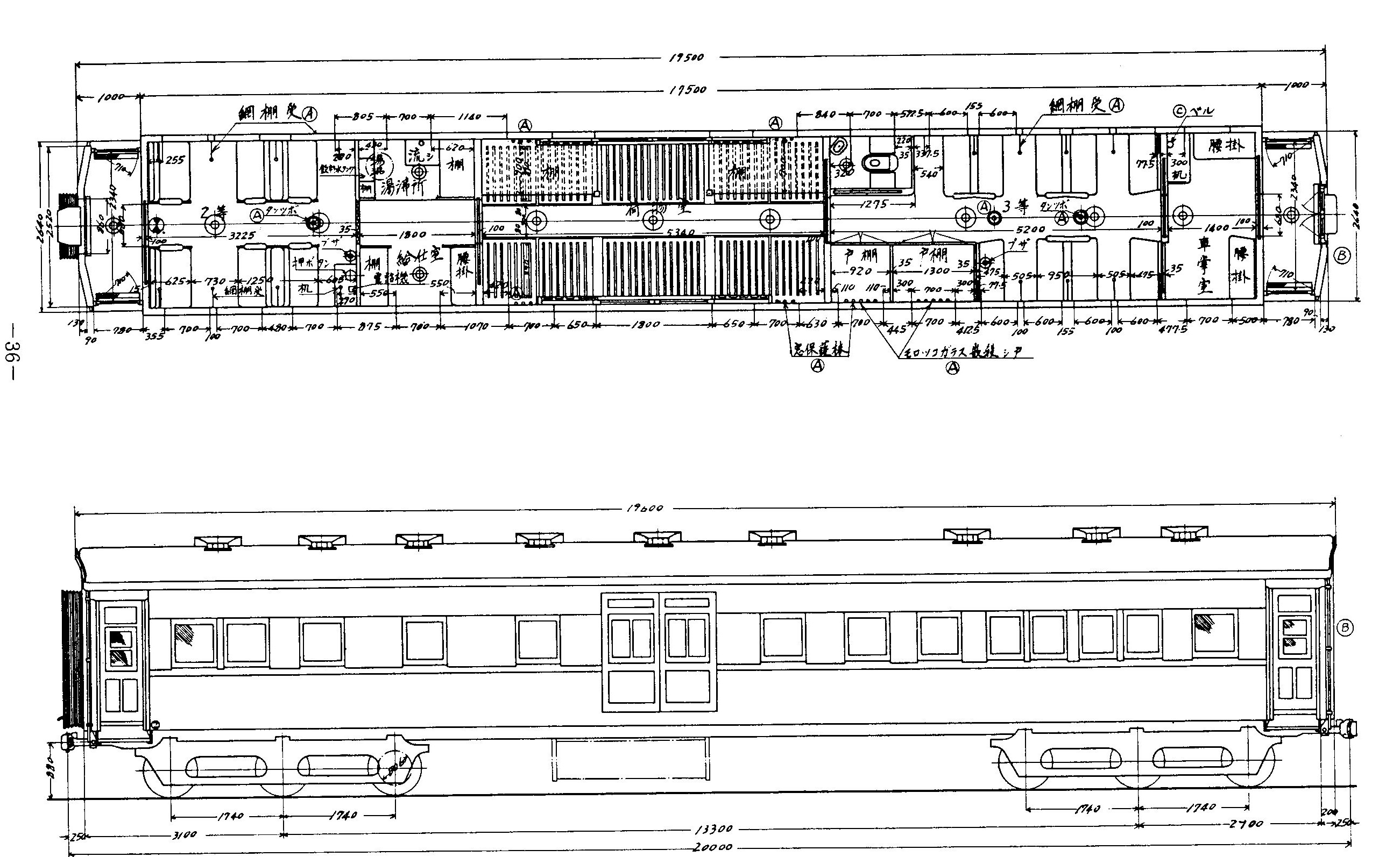 Type drawing of JGR's royal passenger car Gubusha No.460 (Original)